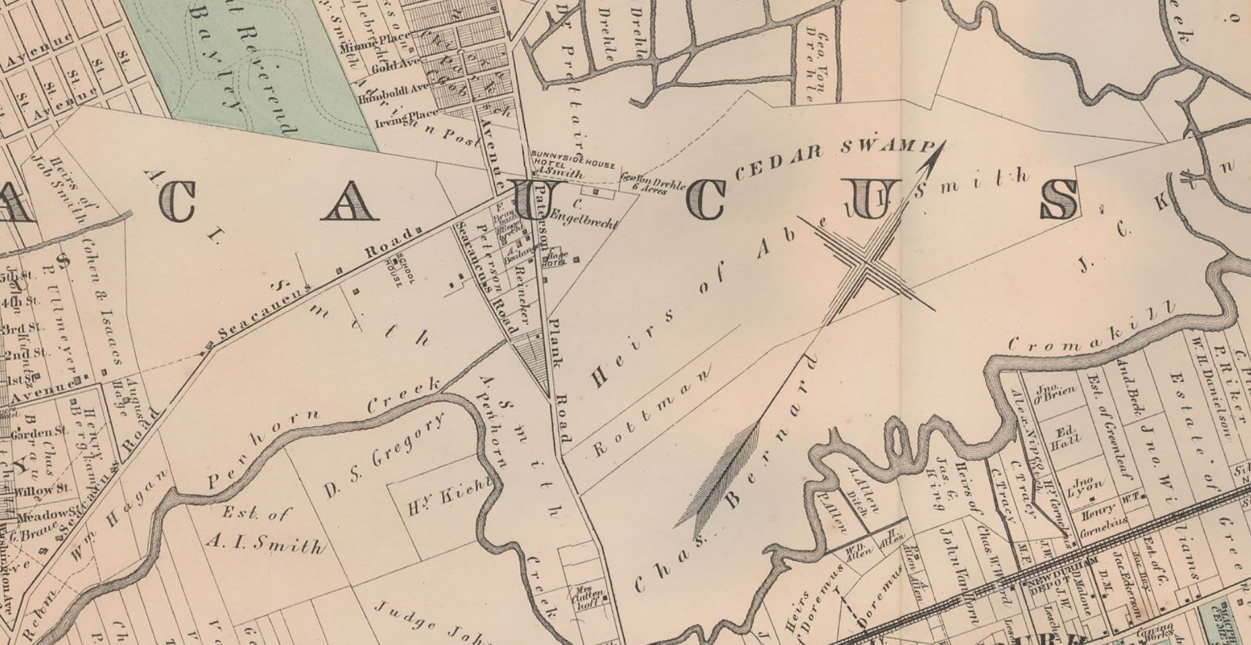 Section of map in Secaucus focused on Able I Smith Farm.